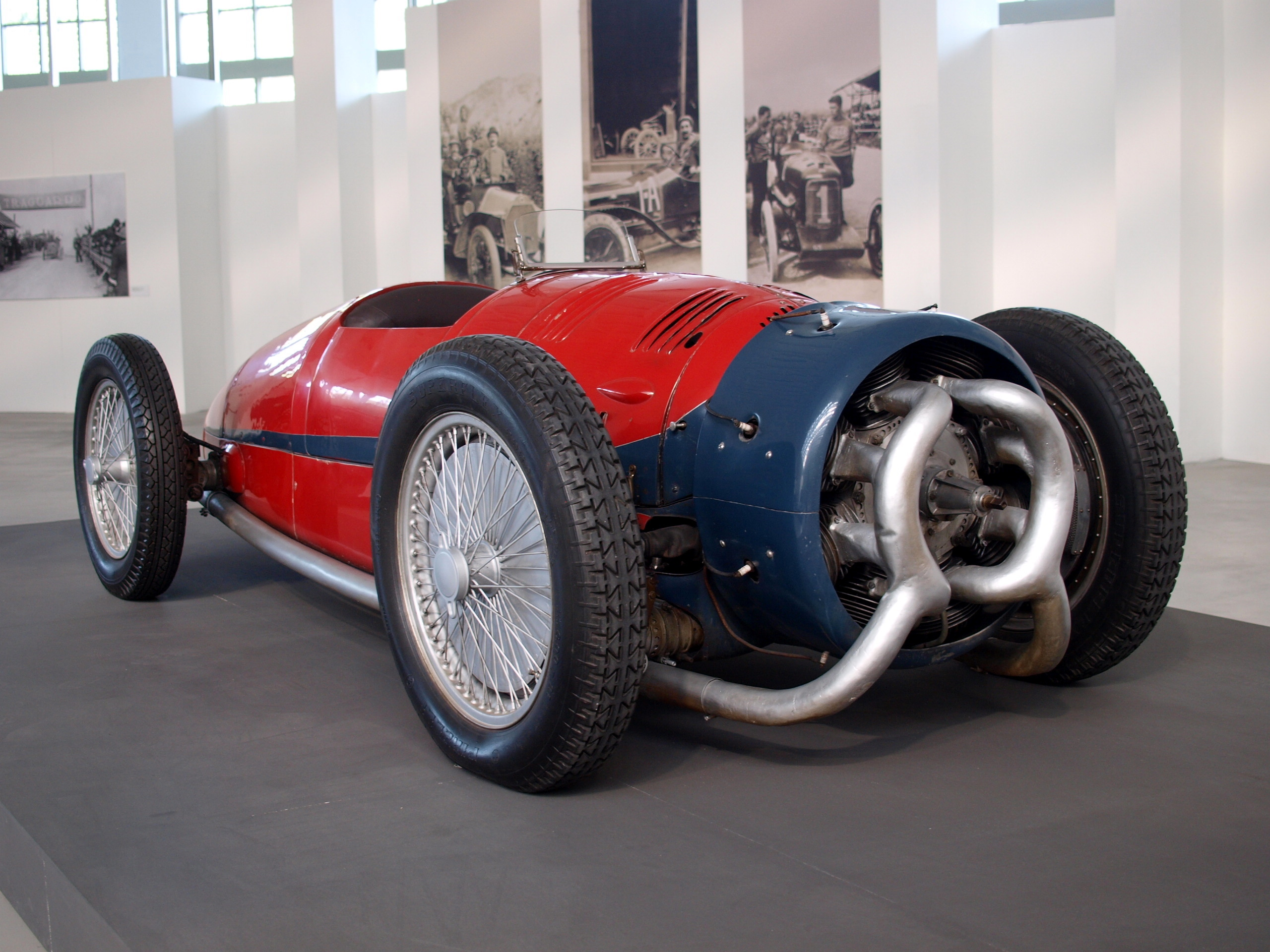 At the "L’evoluzione dell’automobile" display/exhibition at the Museo Nazionale dell'Automobile di Torino in 2009.